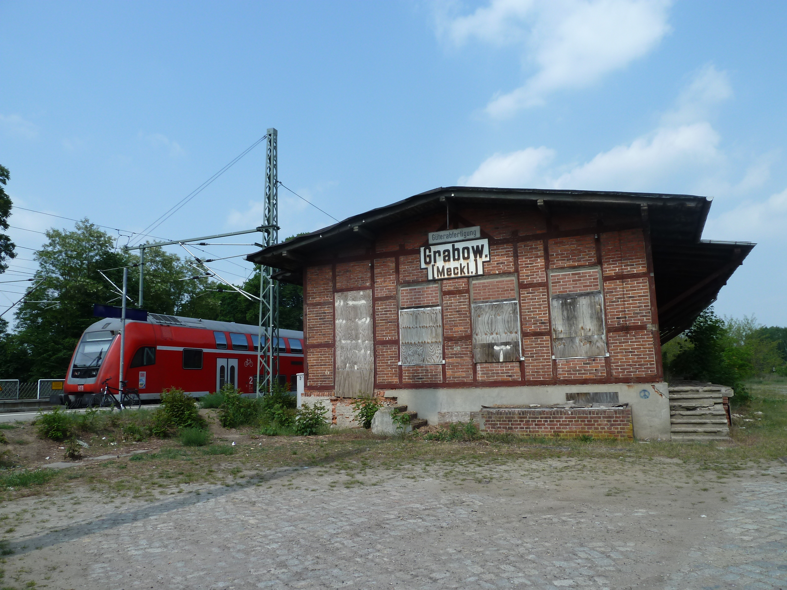 Grabow station, freight shed, close to Ludwigslust, line Berlin-Hamburg